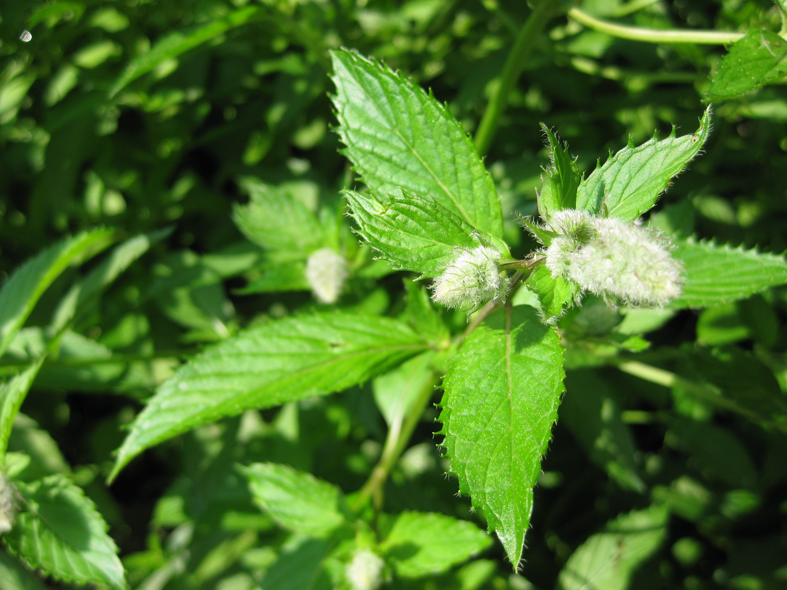 Peppermint plant closeup photo, in my garden